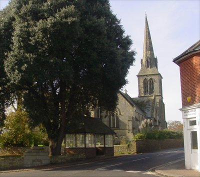 A view of Hurstpierpoint church and bus stop under the Holm oak. This view was taken across the crossroads which links the busy East West High street to the North south Cuckfield Road